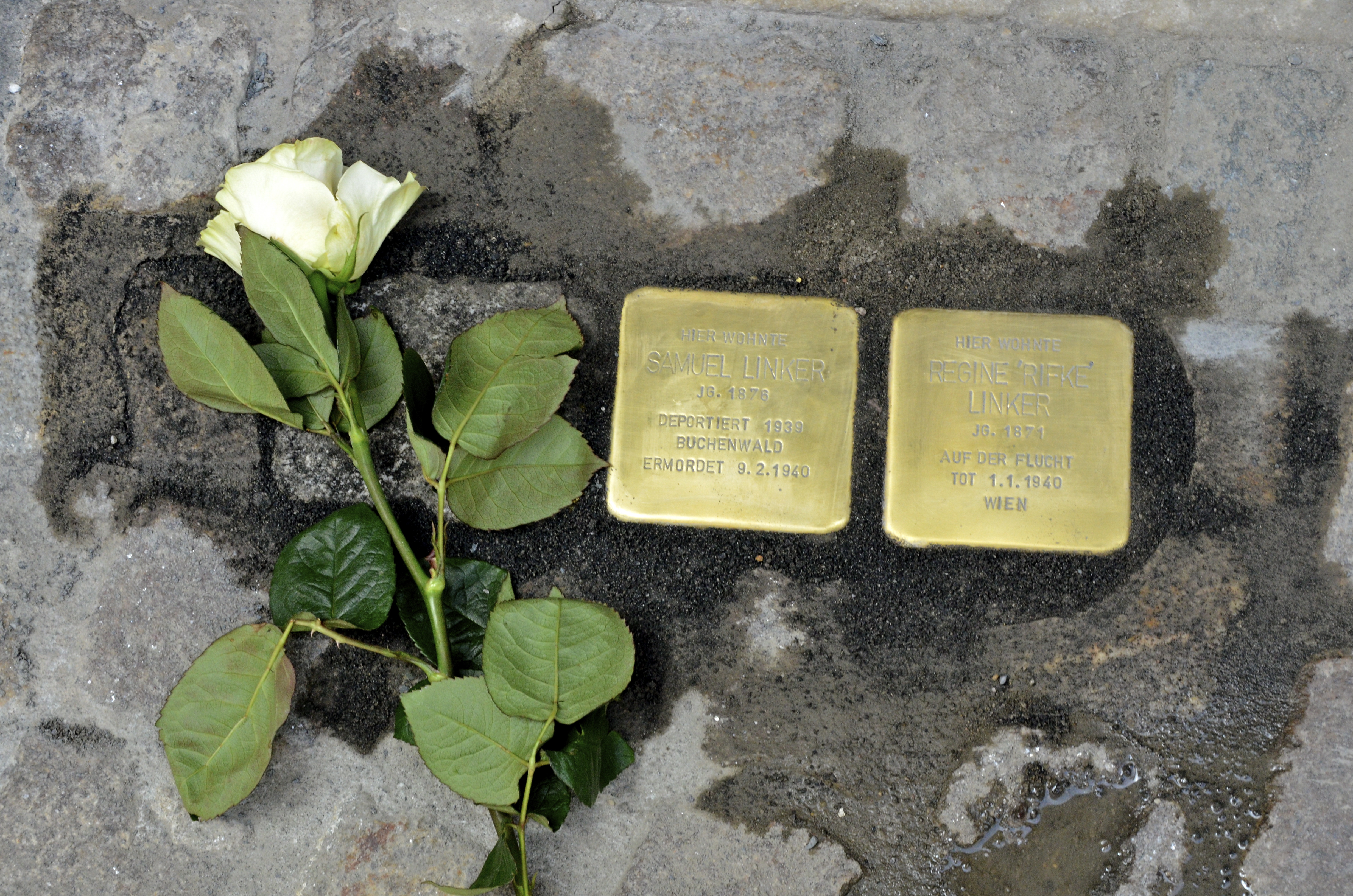 Stumble stones for the memory of Regine and Samuel Linker on Baeckergasse #10, city of Klagenfurt, Carinthia / Austria / EU